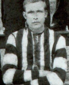 Photograph of Billy Arnott in 1895.